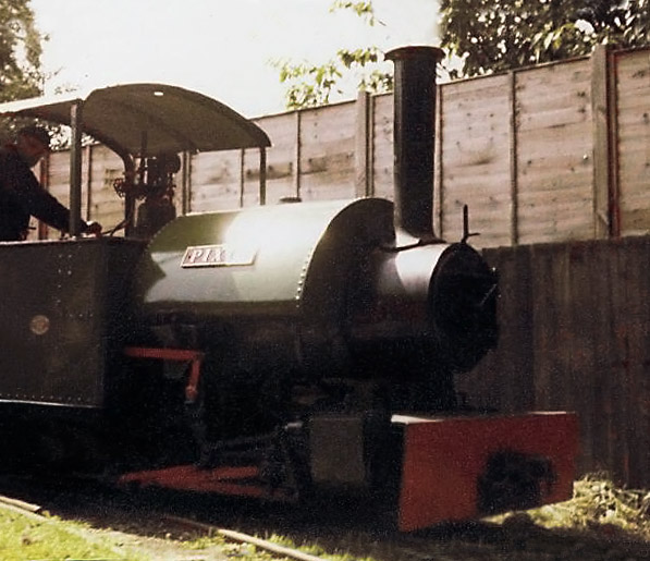 Bagnall locomotive Pixie at Cadeby Author: Gwernol